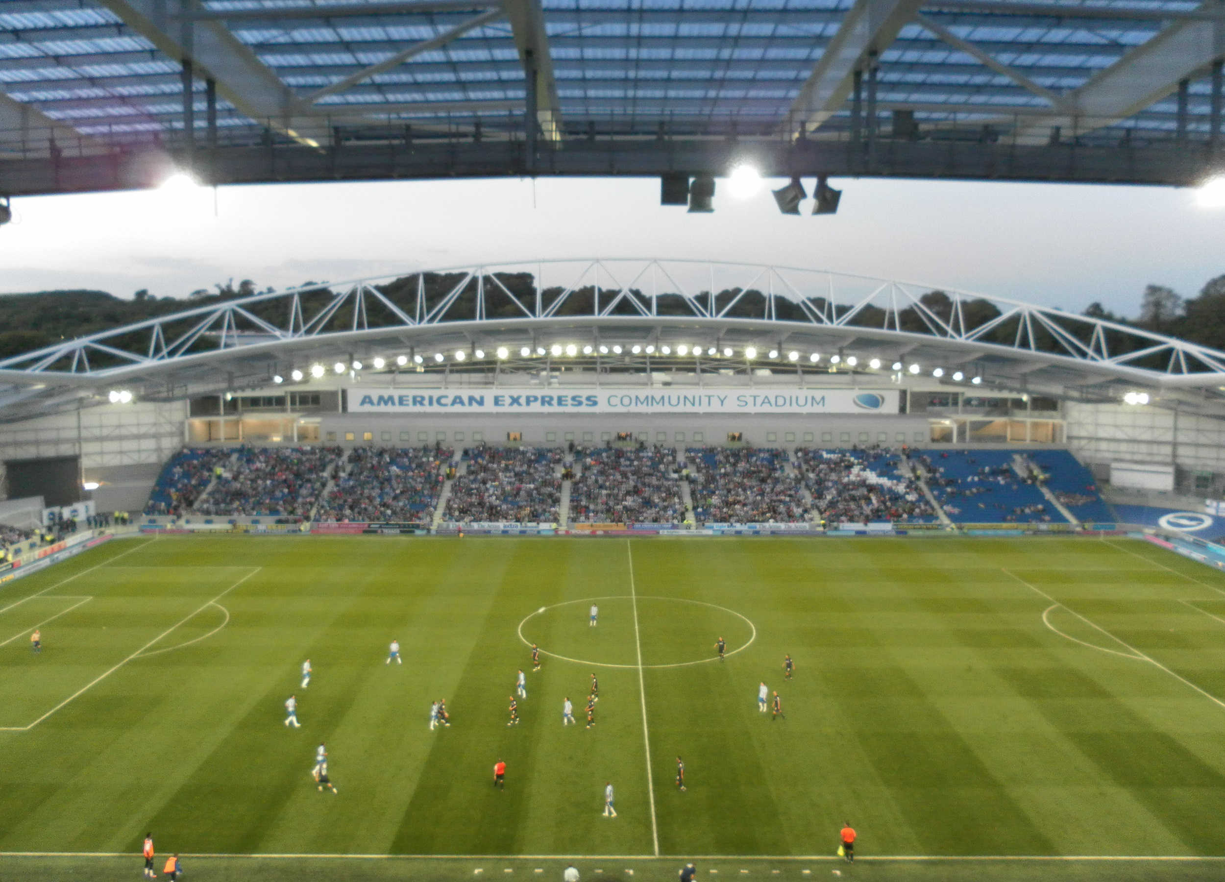 Falmer Stadium (The American Express Community Stadium), Village Way, Brighton, City of Brighton and Hove, England. Brighton and Hove Albion FC's home ground, on the very edge of the city next to the village of Falmer. This picture was taken at the second ever competitive game at the stadium: a midweek League Cup match against Gillingham FC. Brighton won 1–0; the attendance was 16,295.